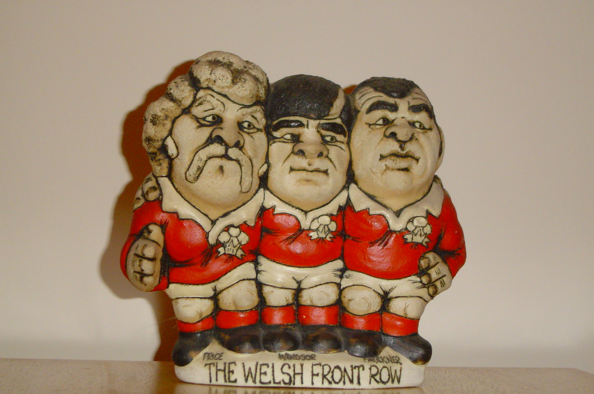 A grogg of the Pontypool and Wales front row. Circa 1979.